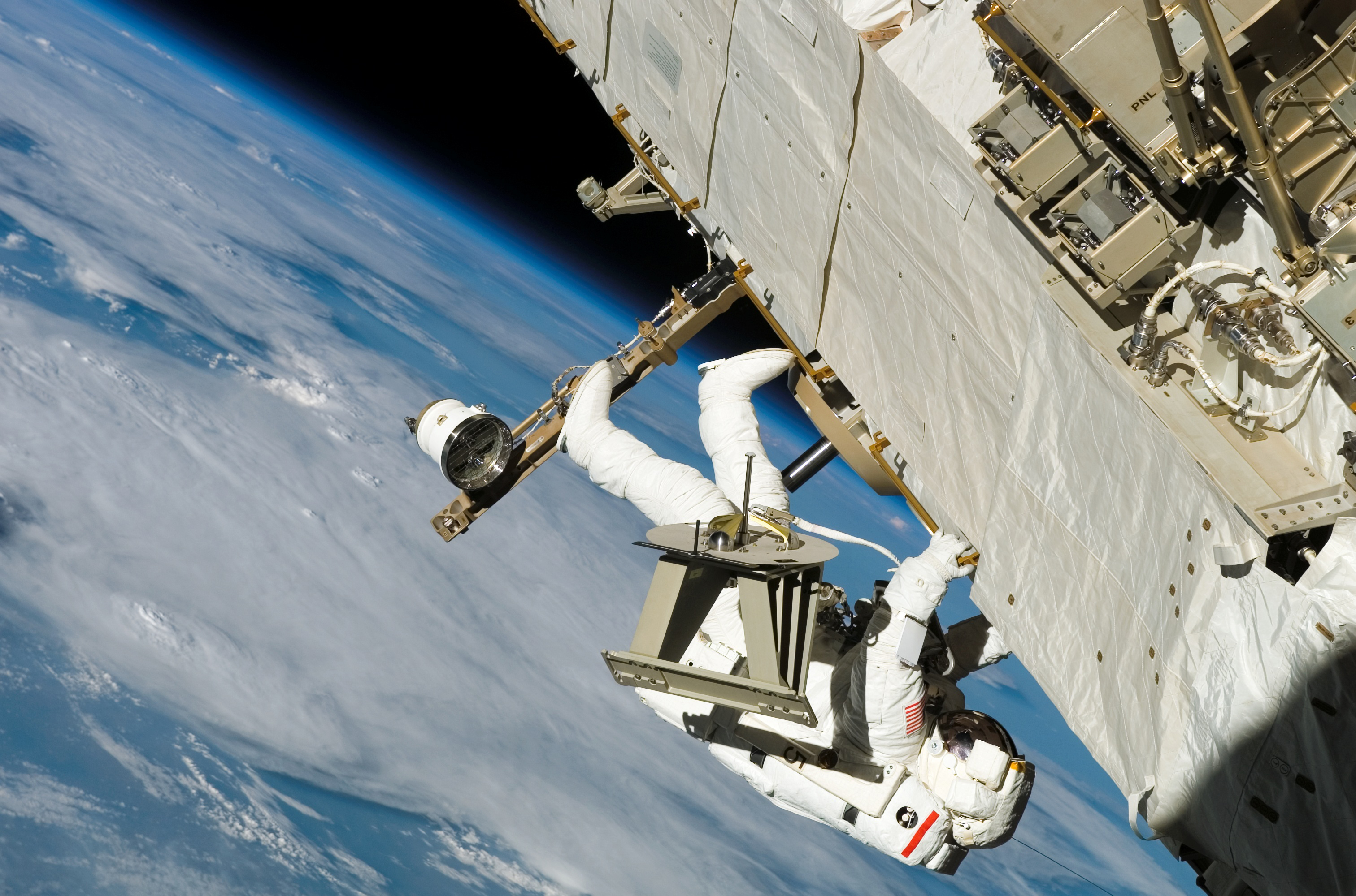 Astronaut Piers J. Sellers, NASA's STS-121 mission specialist, translates along a truss on the International Space Station during the mission's third and final session of extravehicular activity (EVA) while Space Shuttle Discovery was docked with the station.